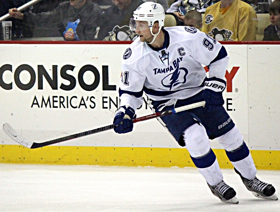 Tampa Bay Lightning forward Steven Stamkos during a game against the Pittsburgh Penguins, March 22, 2014, at Consol Energy Center in Pittsburgh, PA.